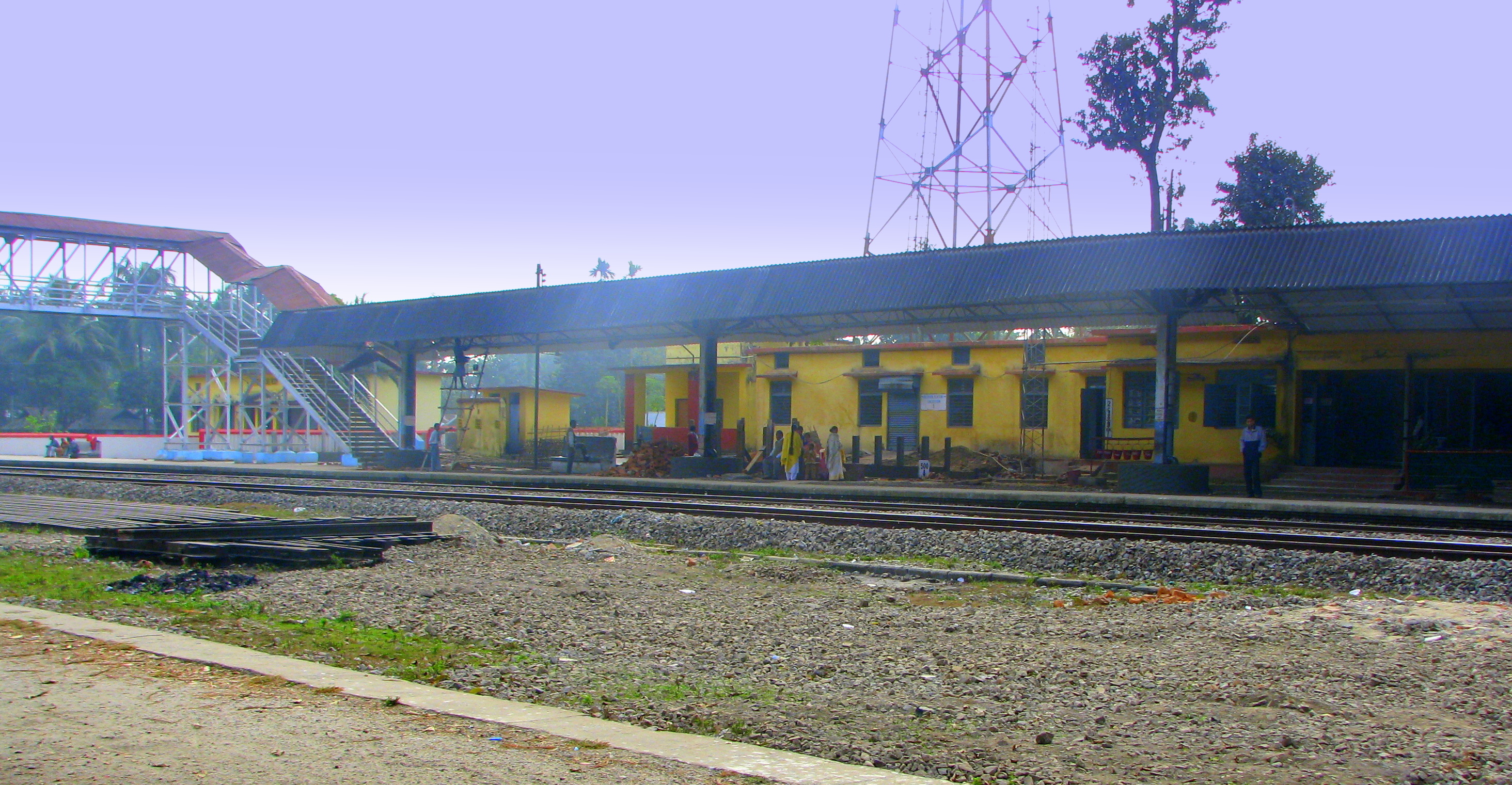 Bijni railway station